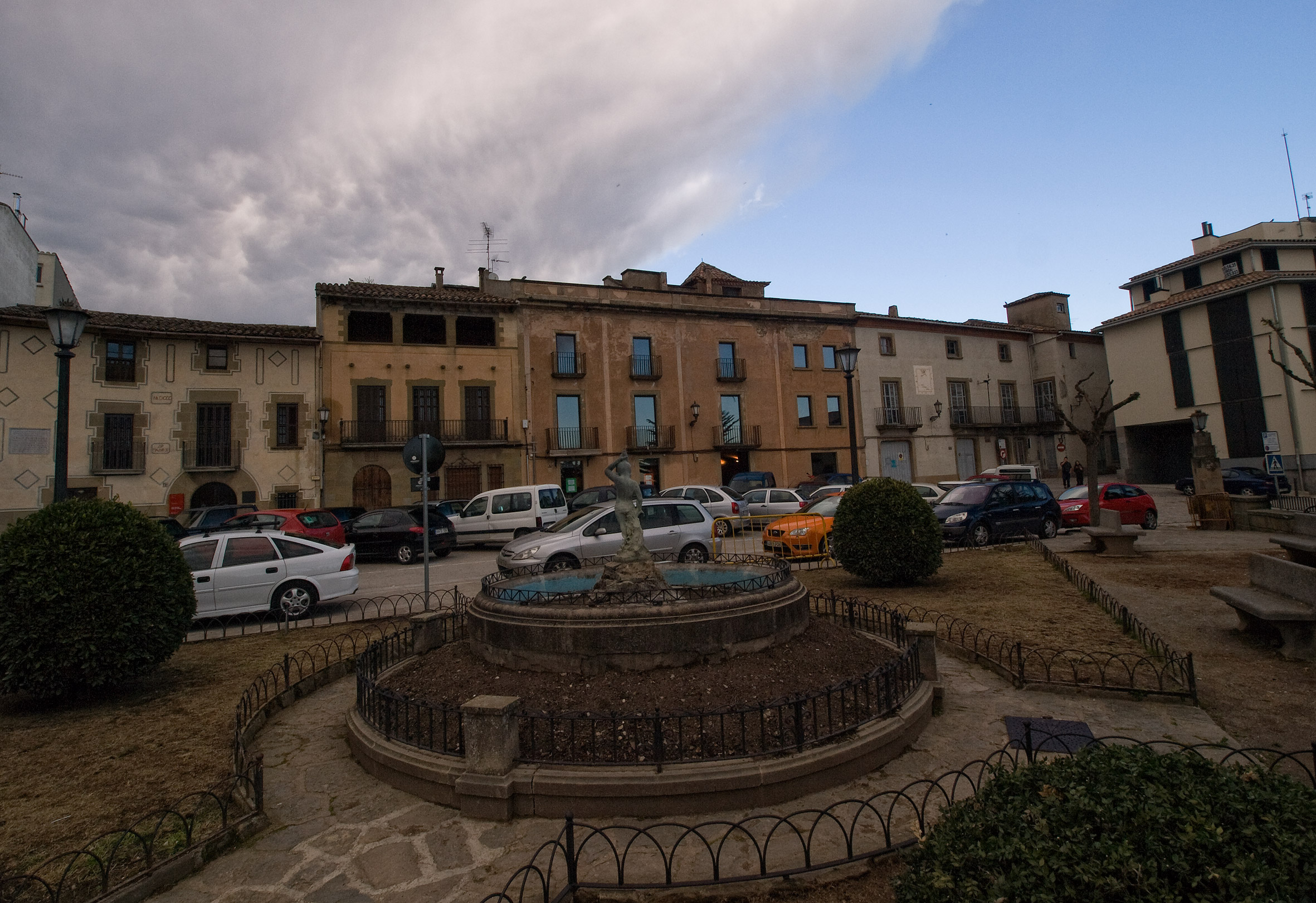 Castellterçol Square (Catalunya, Spain)